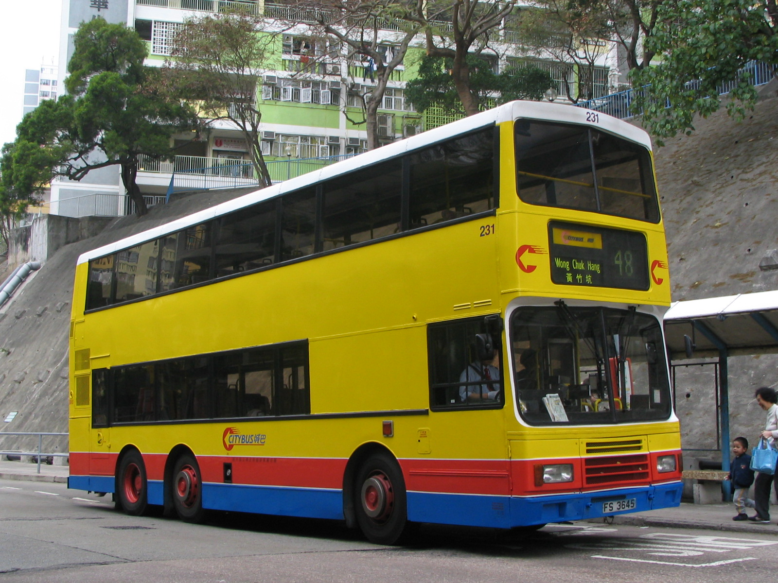 Citybus Hong Kong Leyland Olympian 231 FS3645 is seen smartly turned out as it operates the 48 through Wah Fu on its way to Wong Chuk Hang.